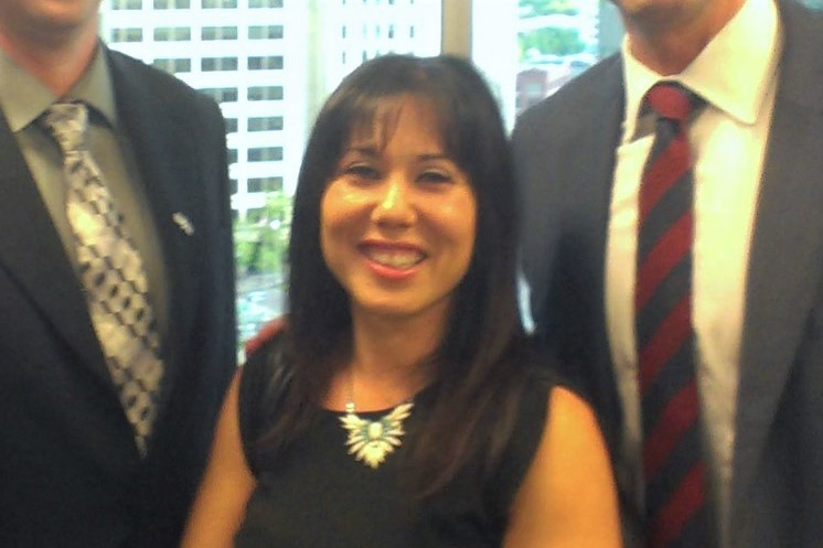 NDP MP Leah Gazan, Winnipeg Centre